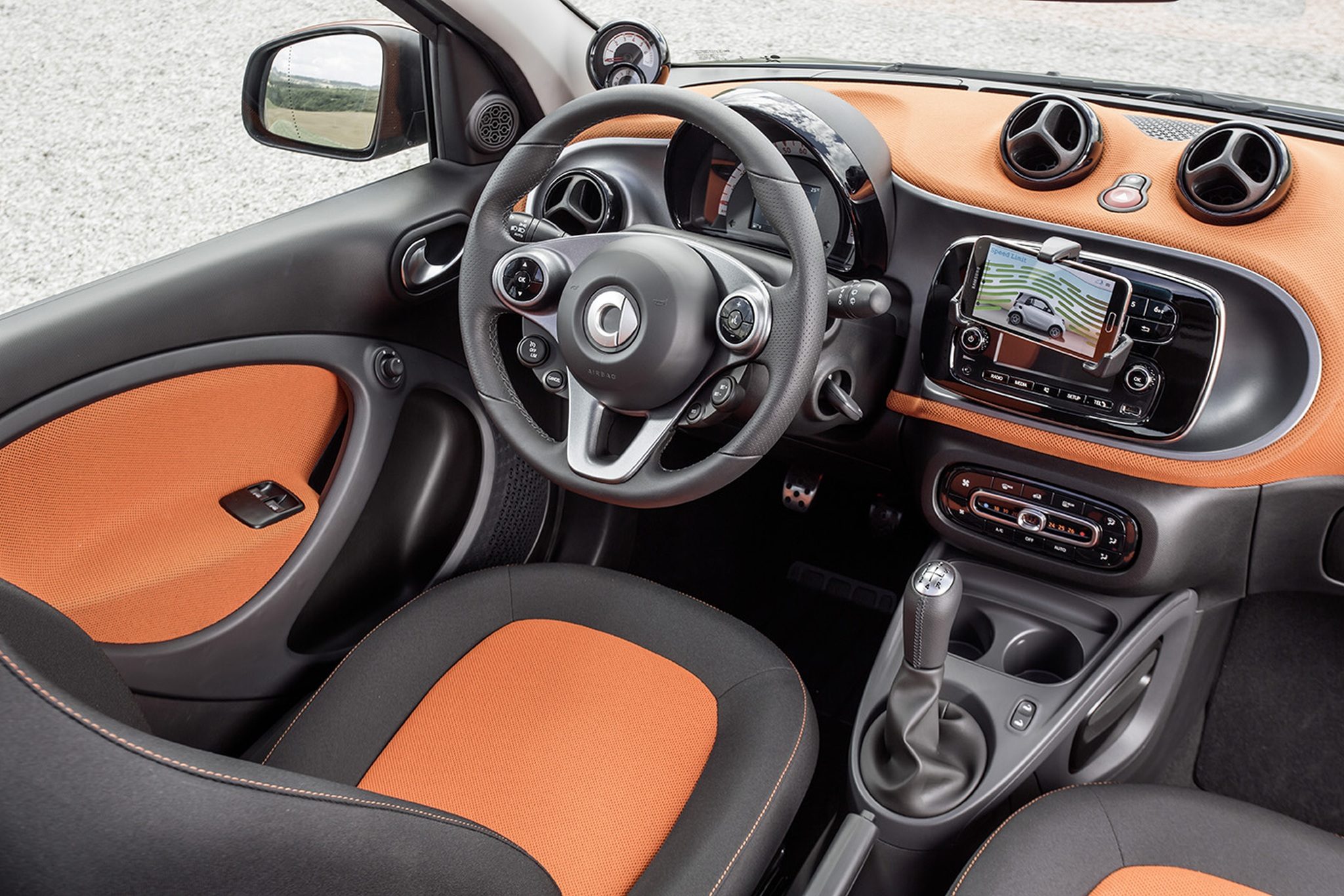 Smartphone-Halterung mit Smartphone (iPhone 5), smart Audio-System smartphone cradle with smartphone, smart audio system